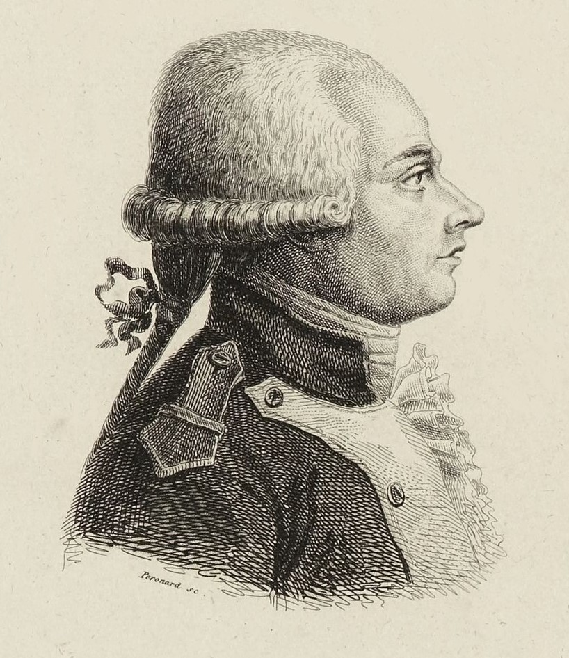 Antoine-François Momoro (1756-1794), French Printer, Politician, and Revolutionist.